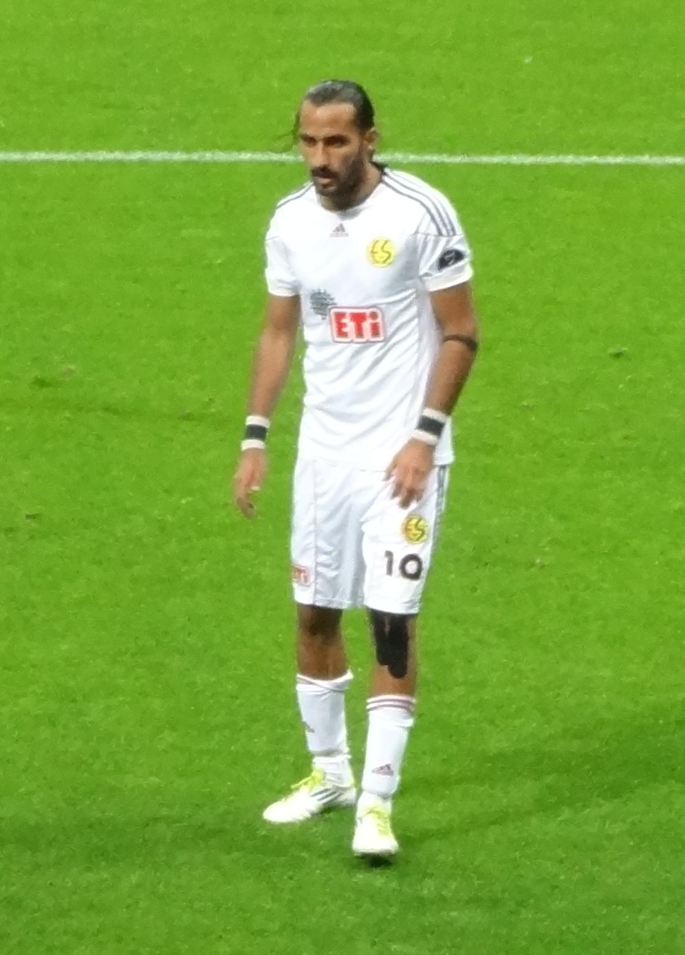 erkanagainst galatasaray